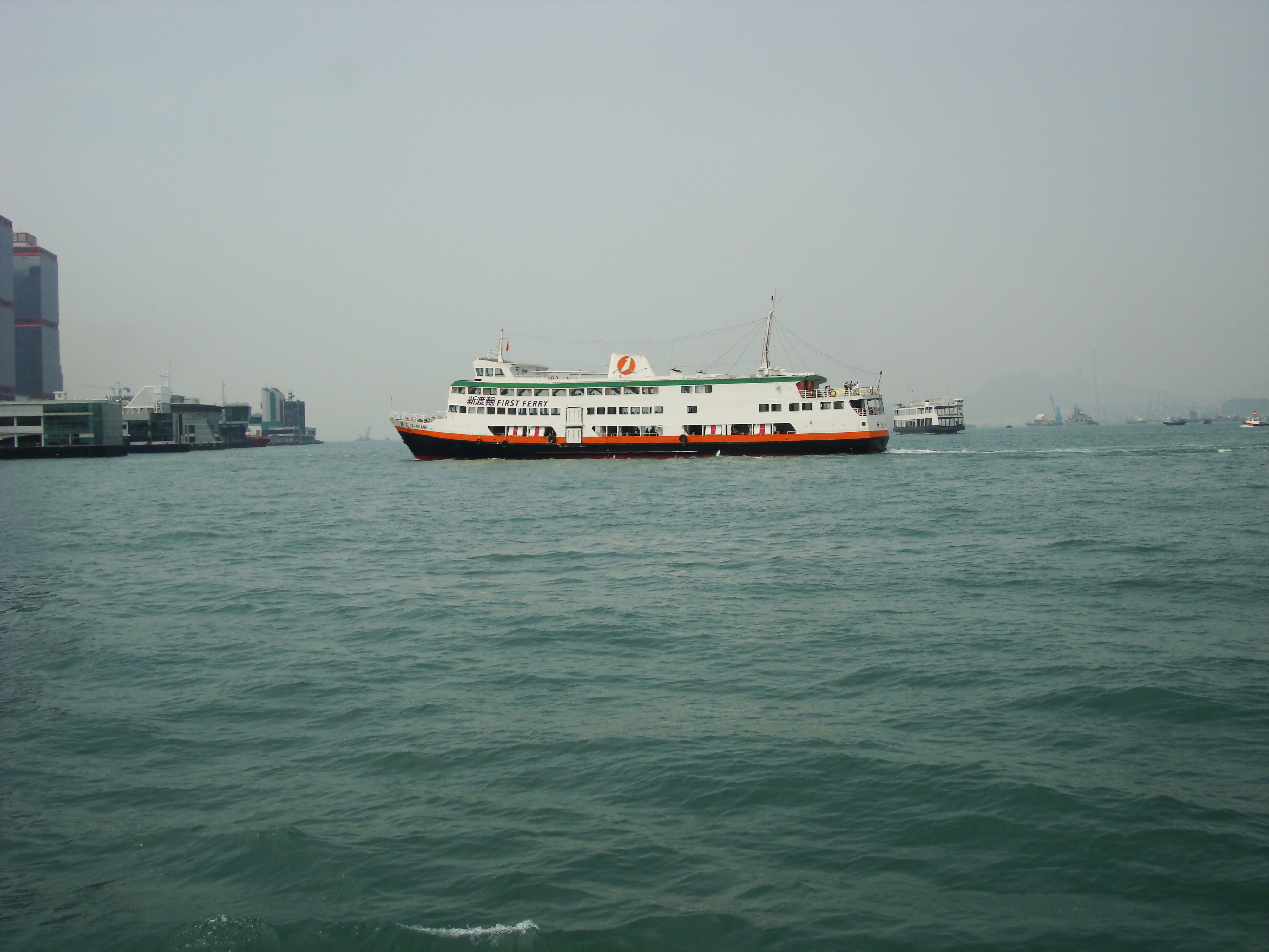 Hong Kong Victoria Harbor First Ferry Xin Guang